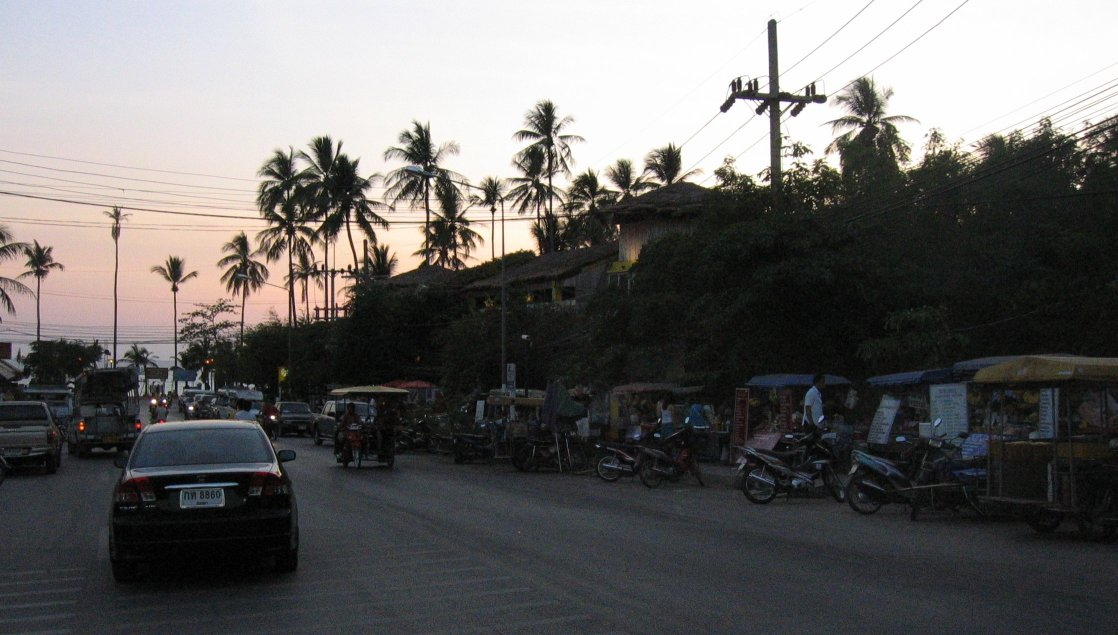 Ao Nang, Thailand. Early evening late February or early March 2006. Main street, palm trees, fast-food stalls to the right, Indian Ocean in the distance (left).